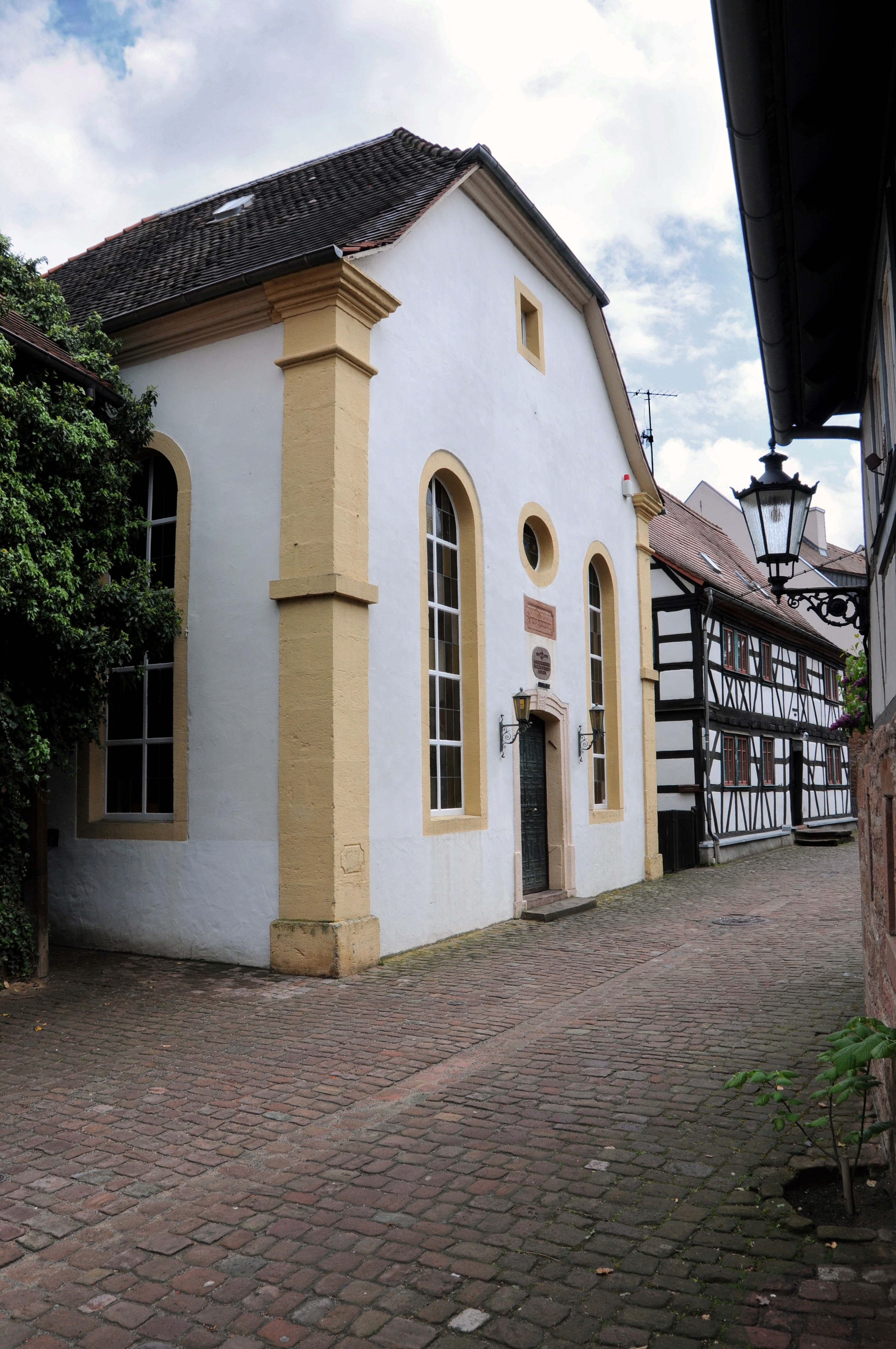 Michelstadt (Germany), synagogue